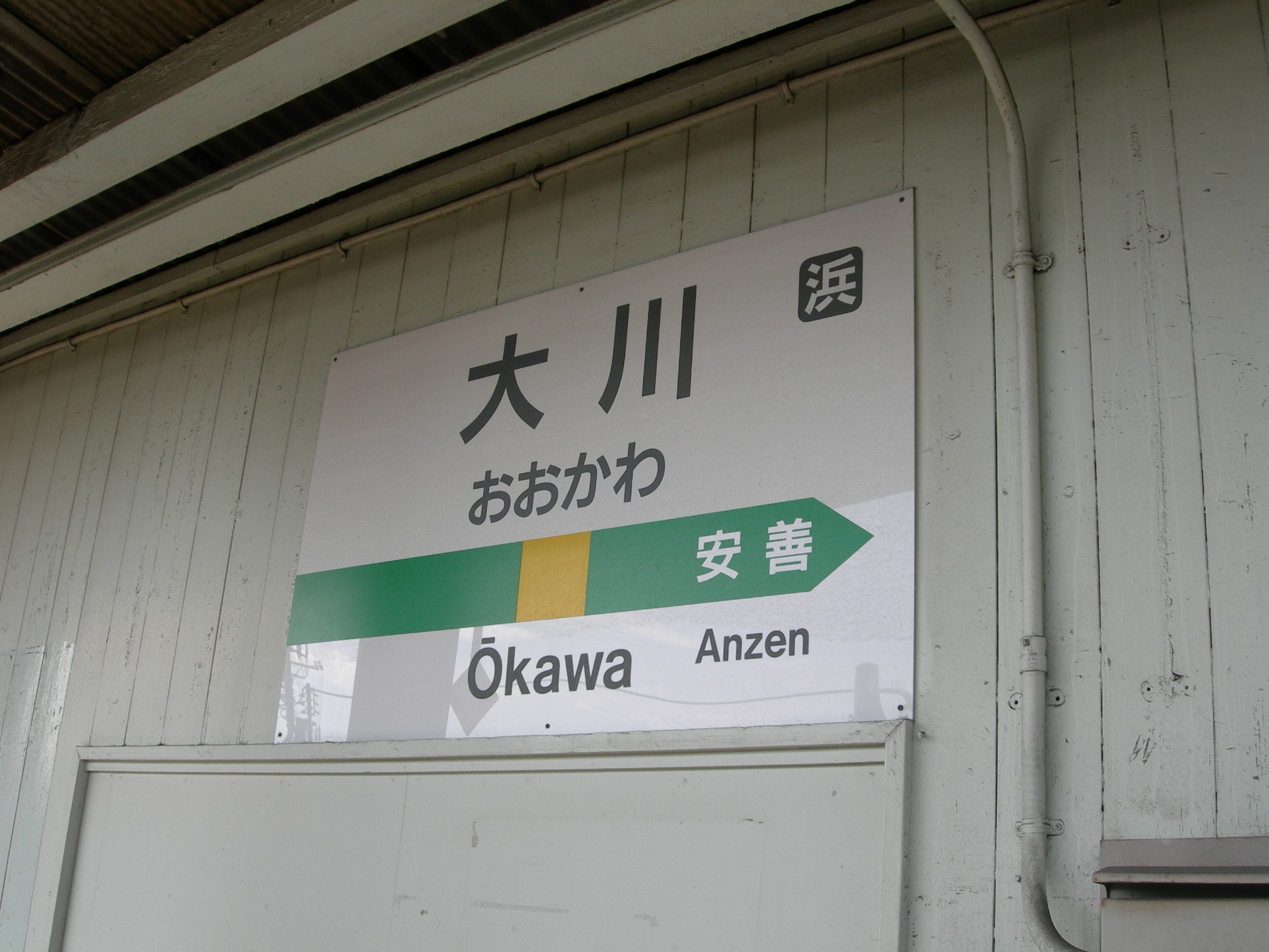 Station Name of Ōkawa Station, Tsurumi Line.